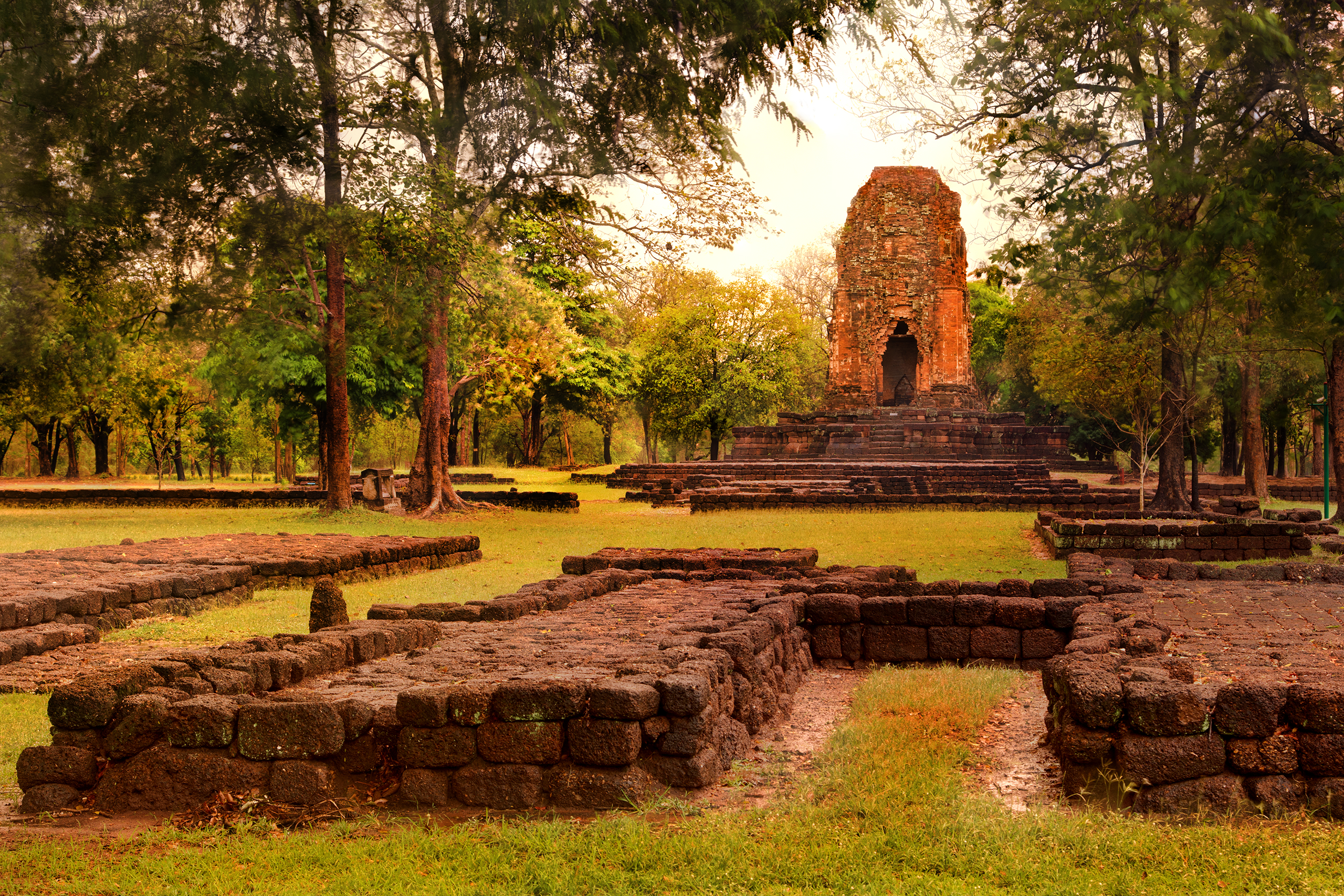 Prang Si Thep, Si Thep Historical Park, Si Thep District, Phetchabun Province, Thailand